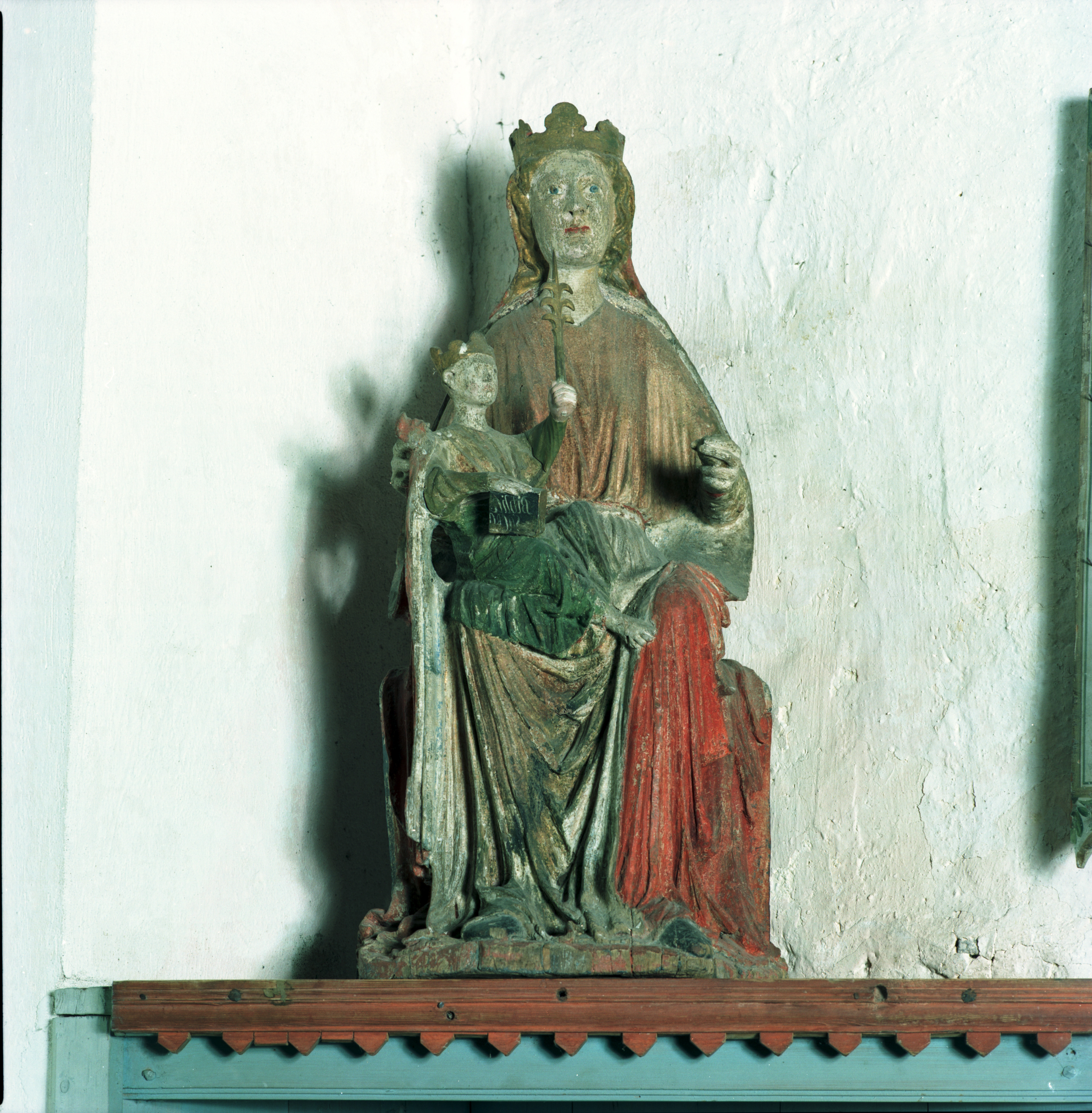 Madonna and Child from the 13th century in Bønsnes Church, Hole inBuskerud, Norway.